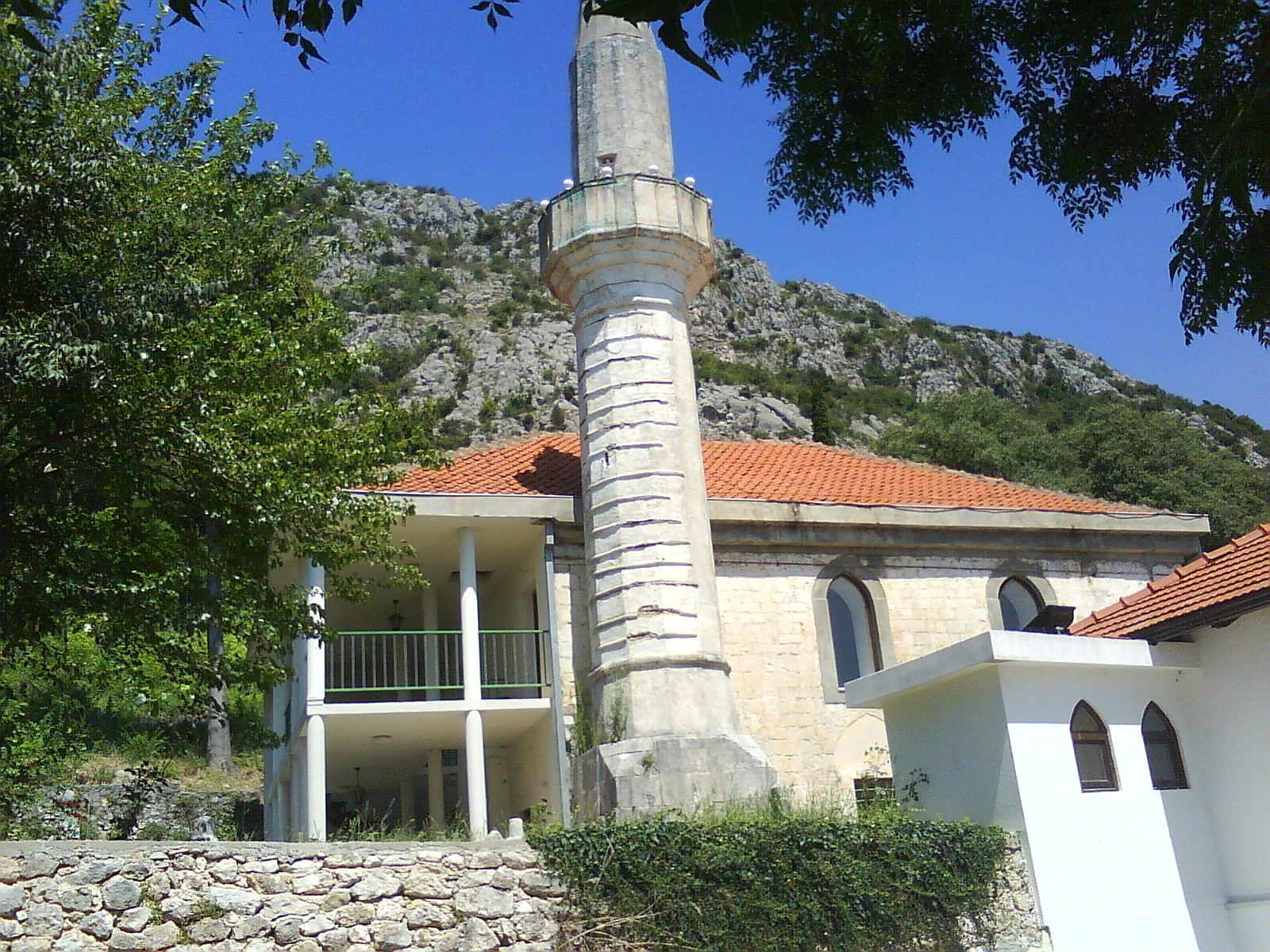 Mosque in Ljubuški